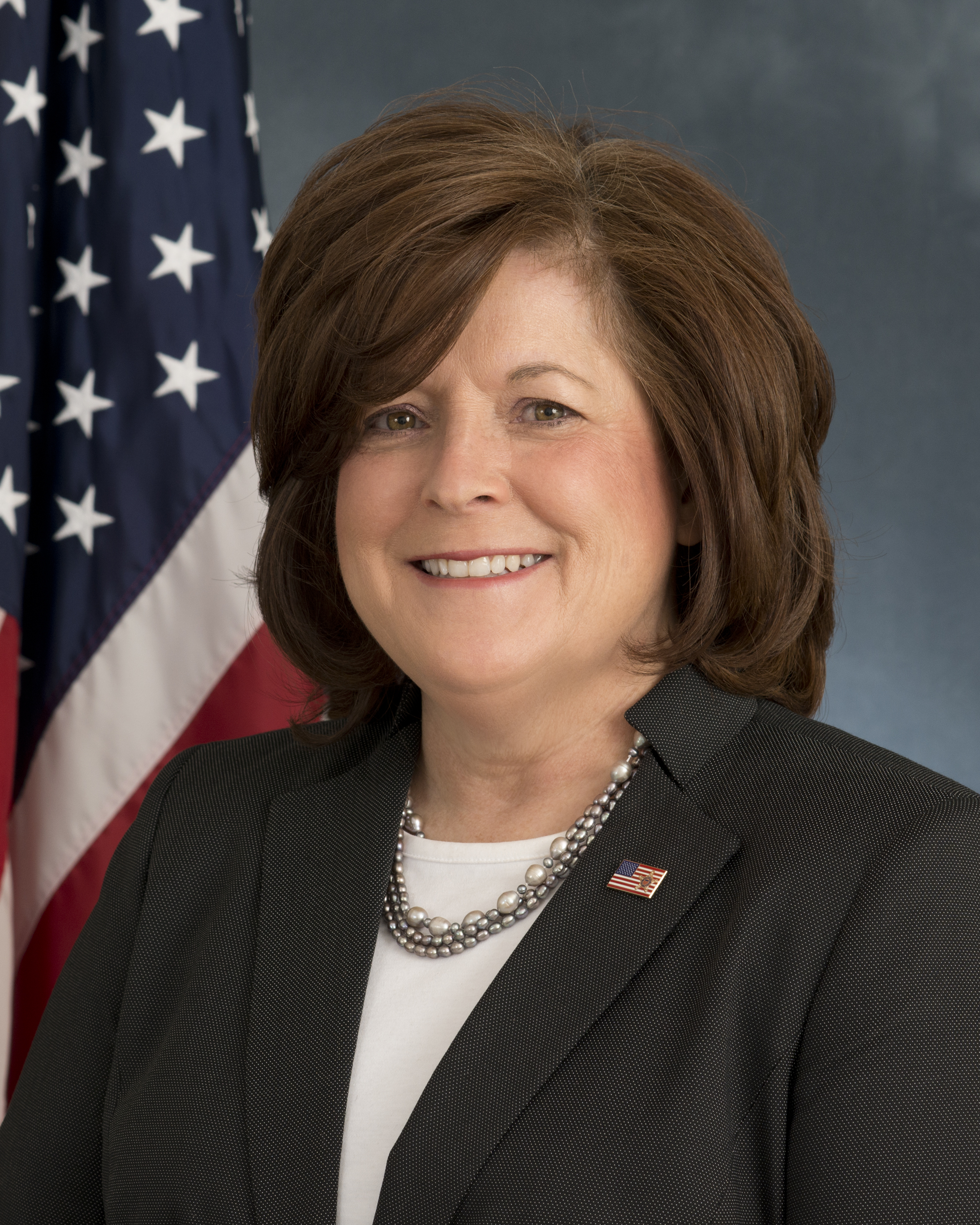 Official photograph of United States Secret Service Director, Julia Pierson.